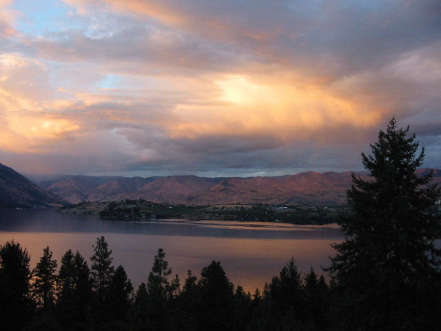 South shore of Lake Chelan at sunset